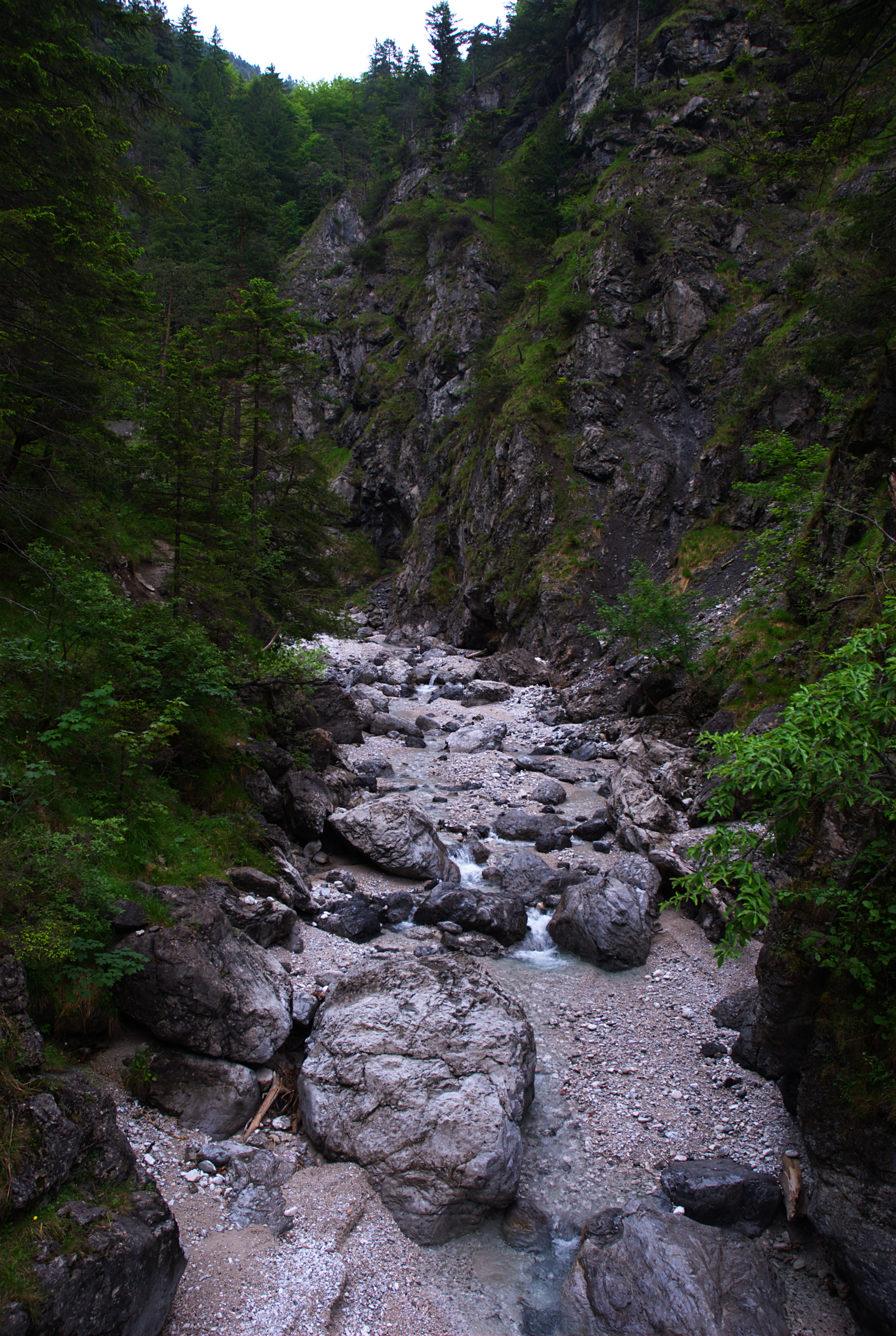 The Vomper Bach in the Karwendel